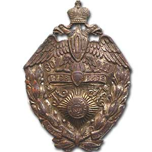 Badge of Poltavsky 30-th Regiment